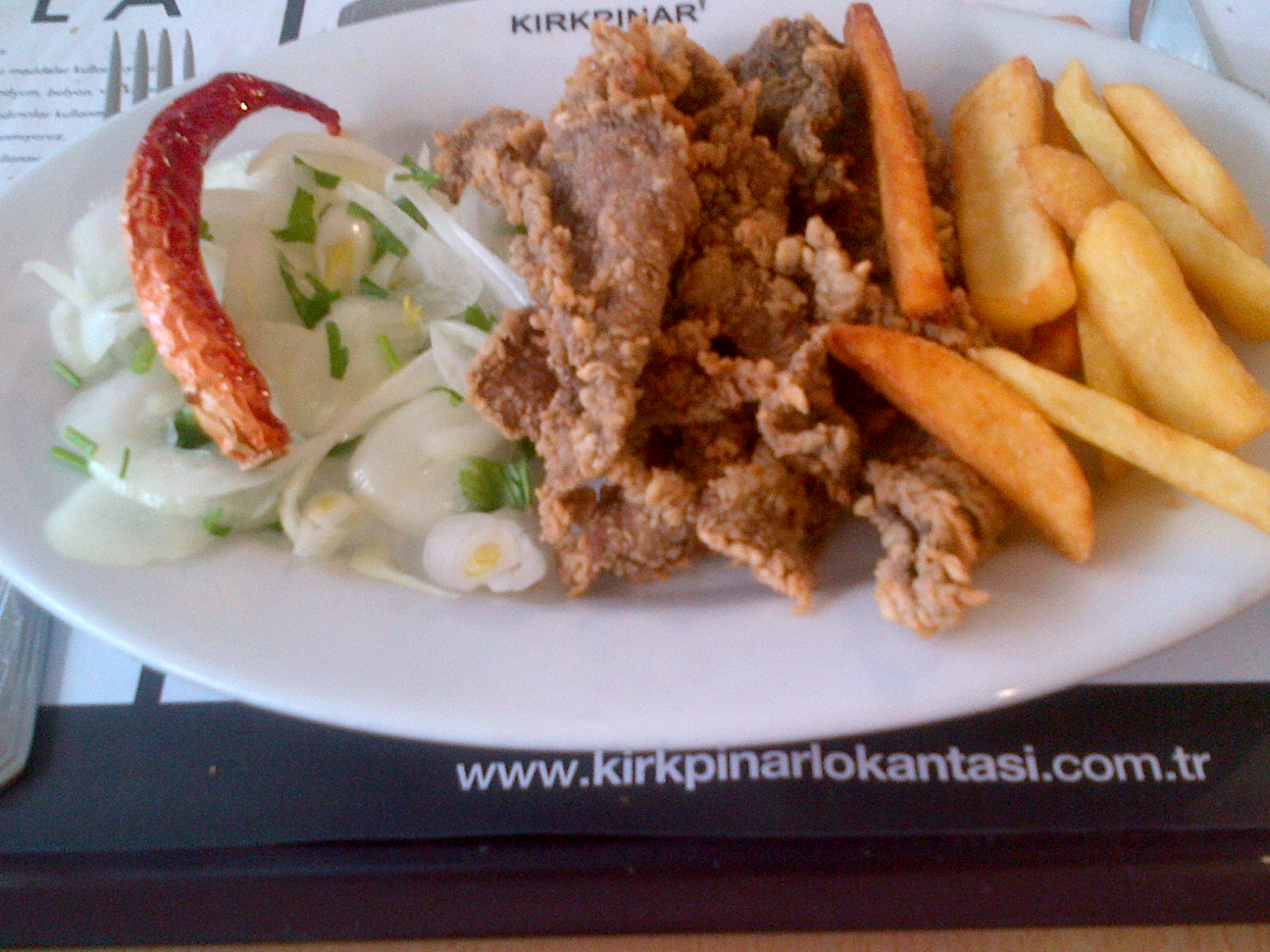 Fried liver, Edirne style.